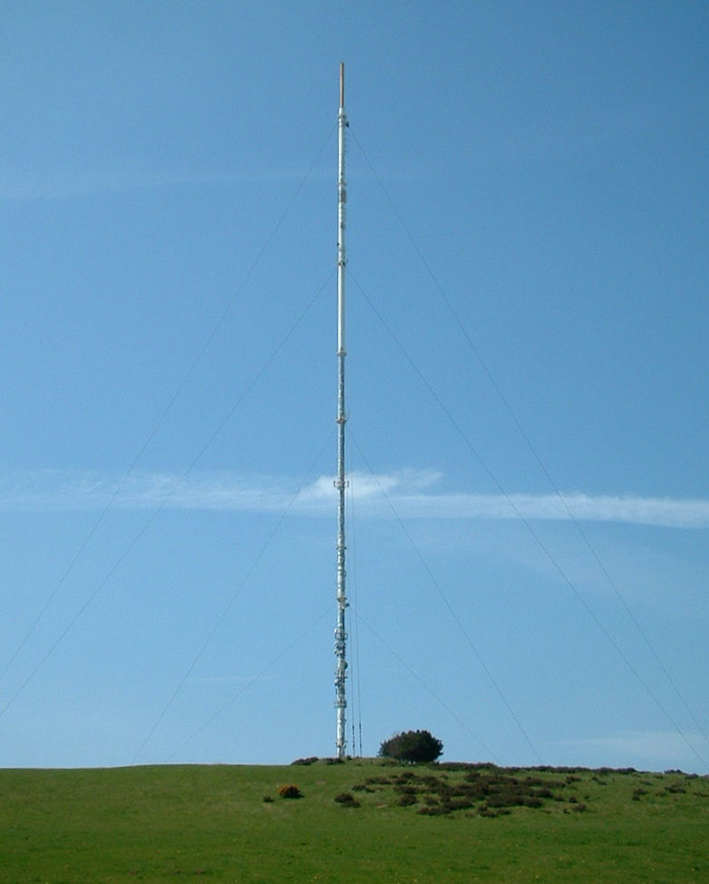 Mendip TV Mast, April 2004